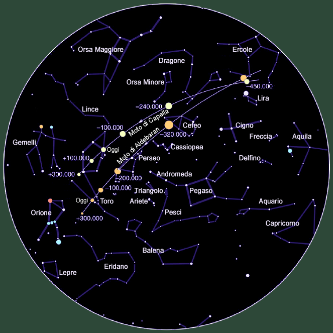 Proper motion of Capella and Aldebaran; other stars are showed fixed for educational purpose